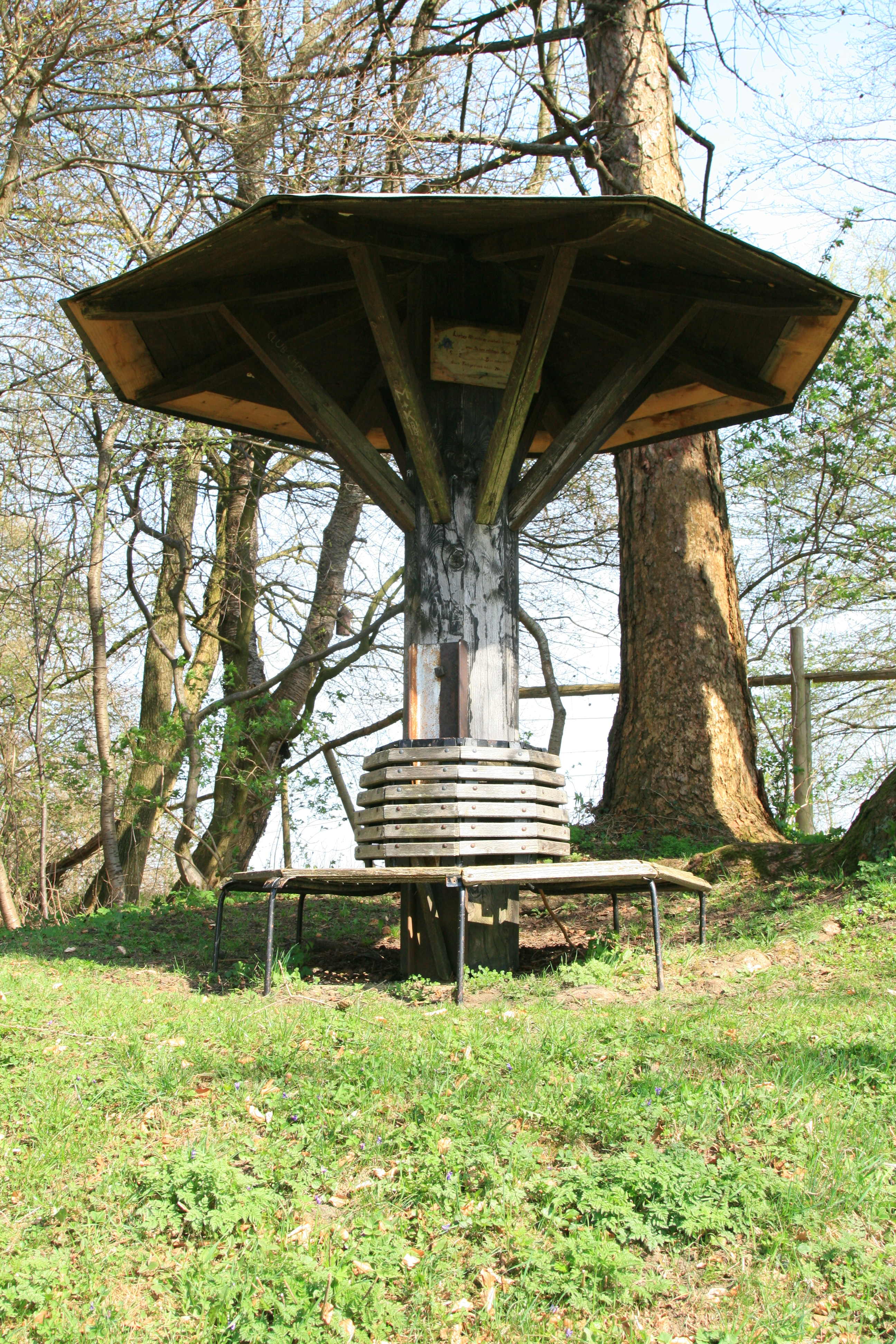 Recreation site called Parapluie on a hill in Grafrath, upper Bavaria, Germany